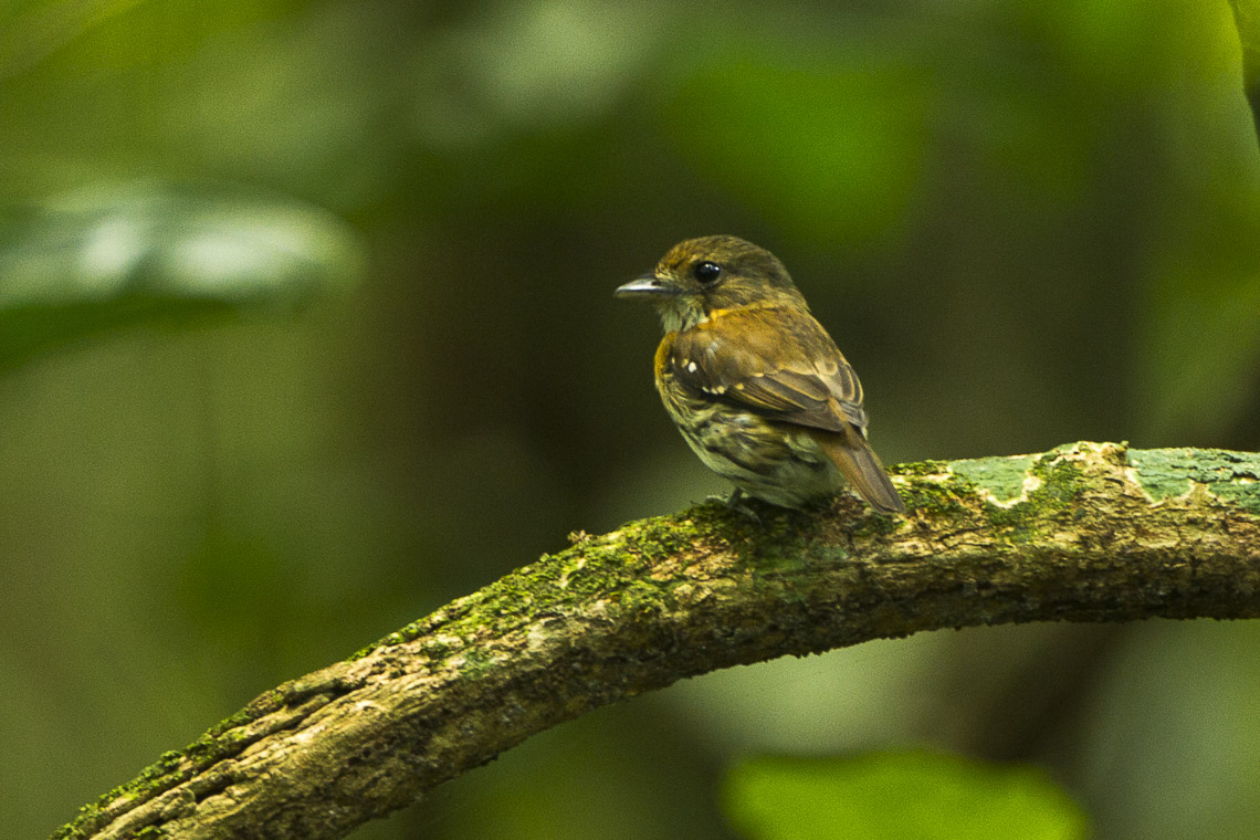 A Rufous-sided Broadbill, other names: Red Broadbill, Red-sided Broadbill, (Smithornis rufolateralis) in the Kakum National Park (Ghana)